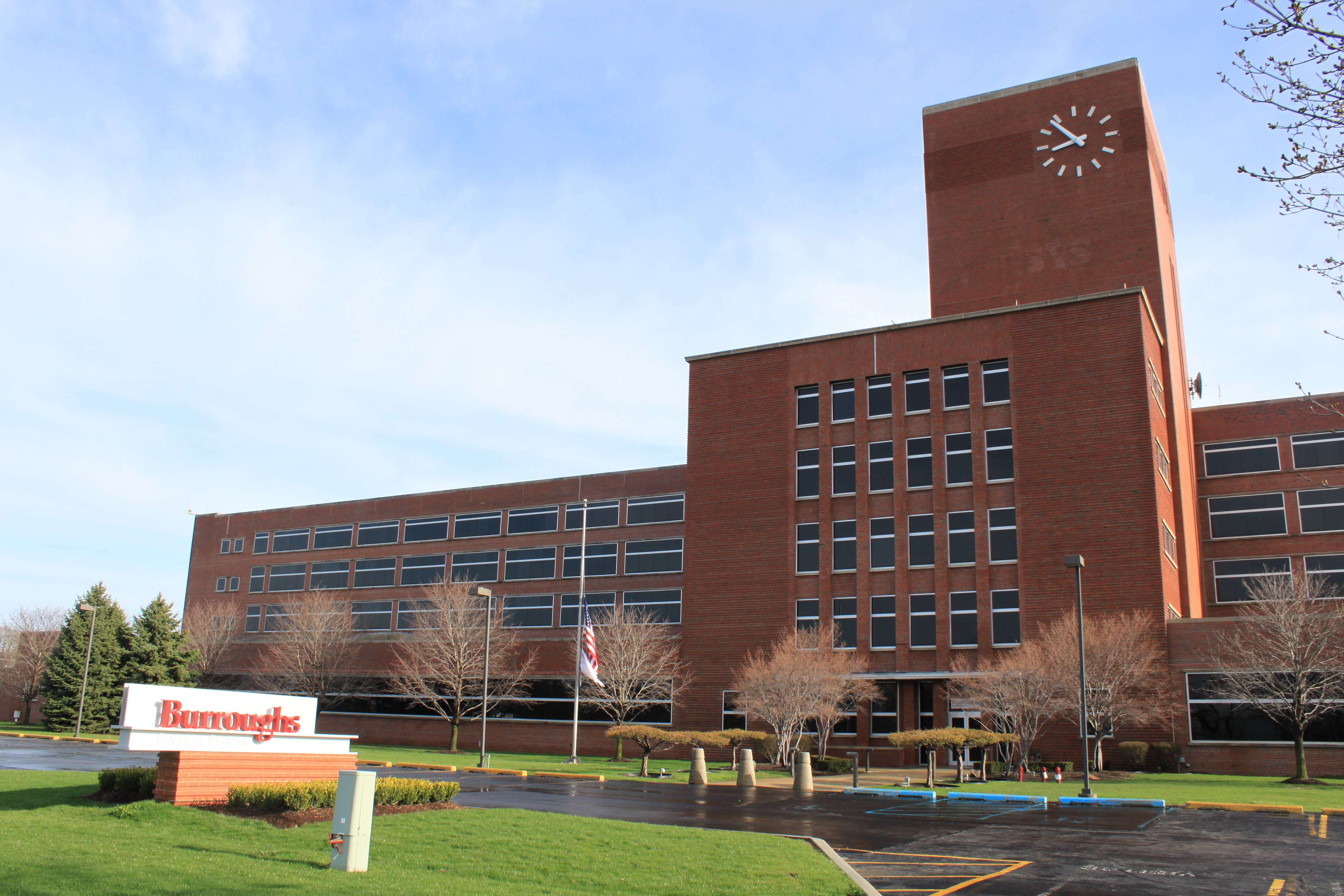 Burroughs Payment Systems, 41100 Plymouth Road, Plymouth, Michigan